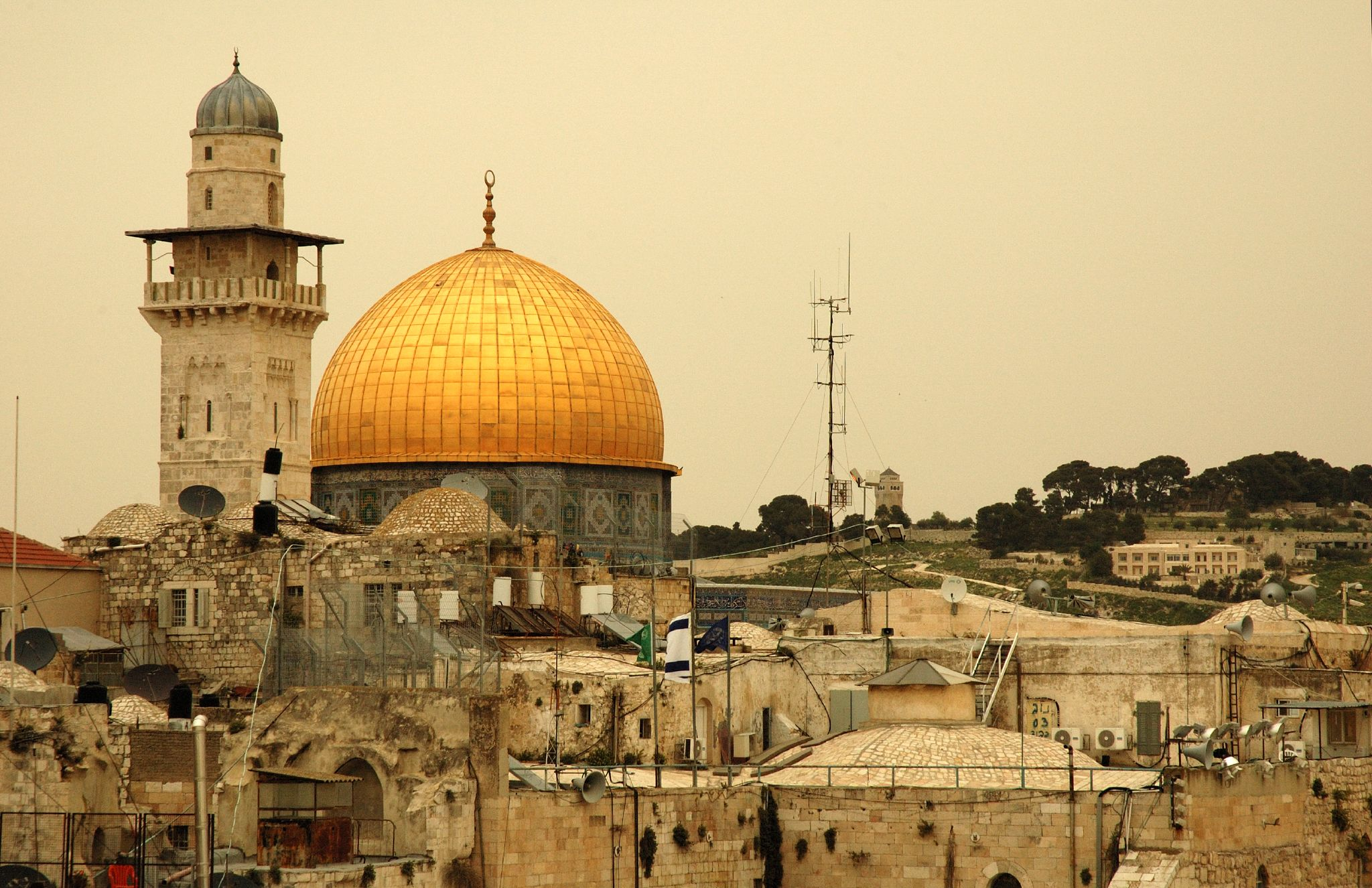 Dome of the rock